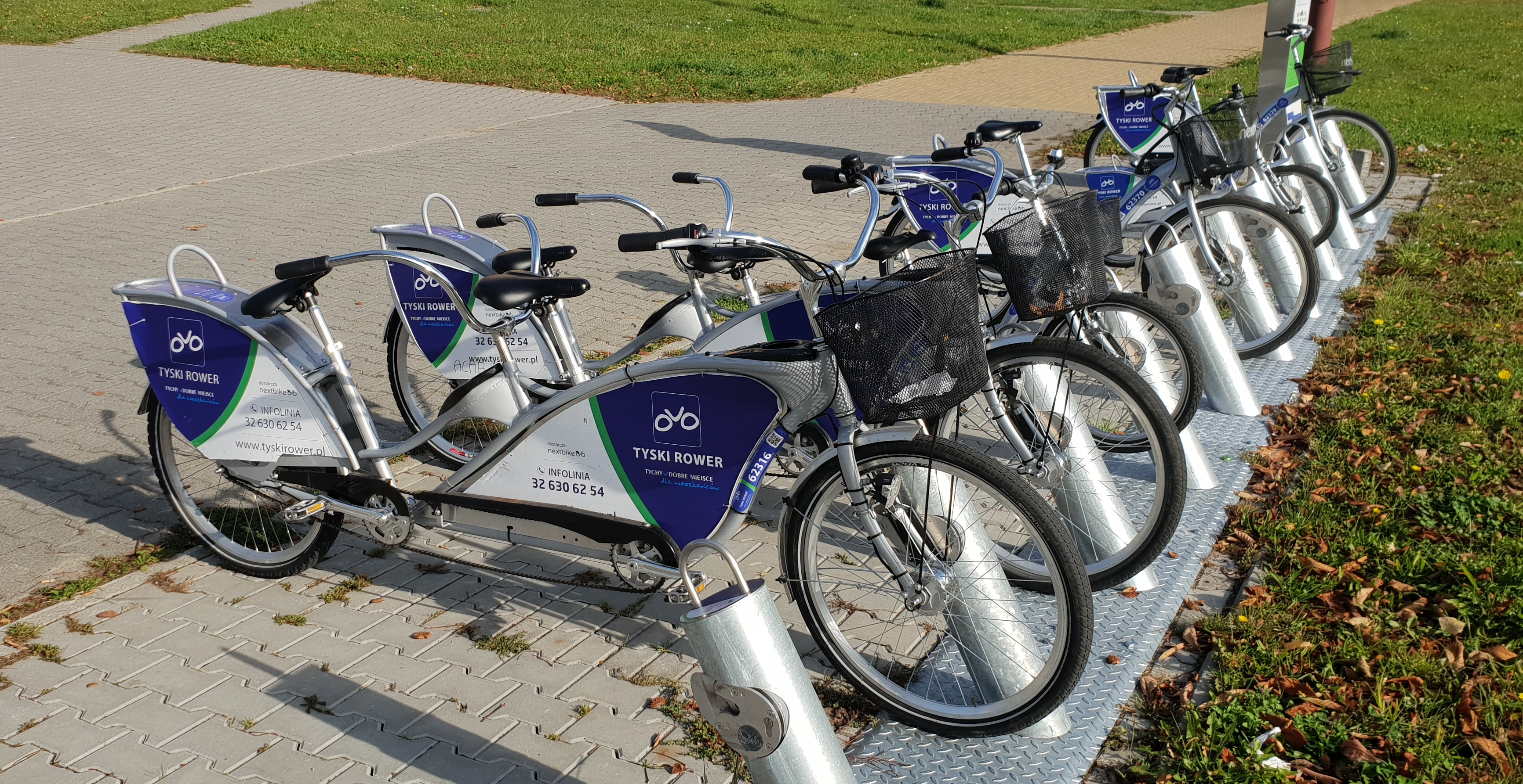 Public bikes in Tychy, Poland